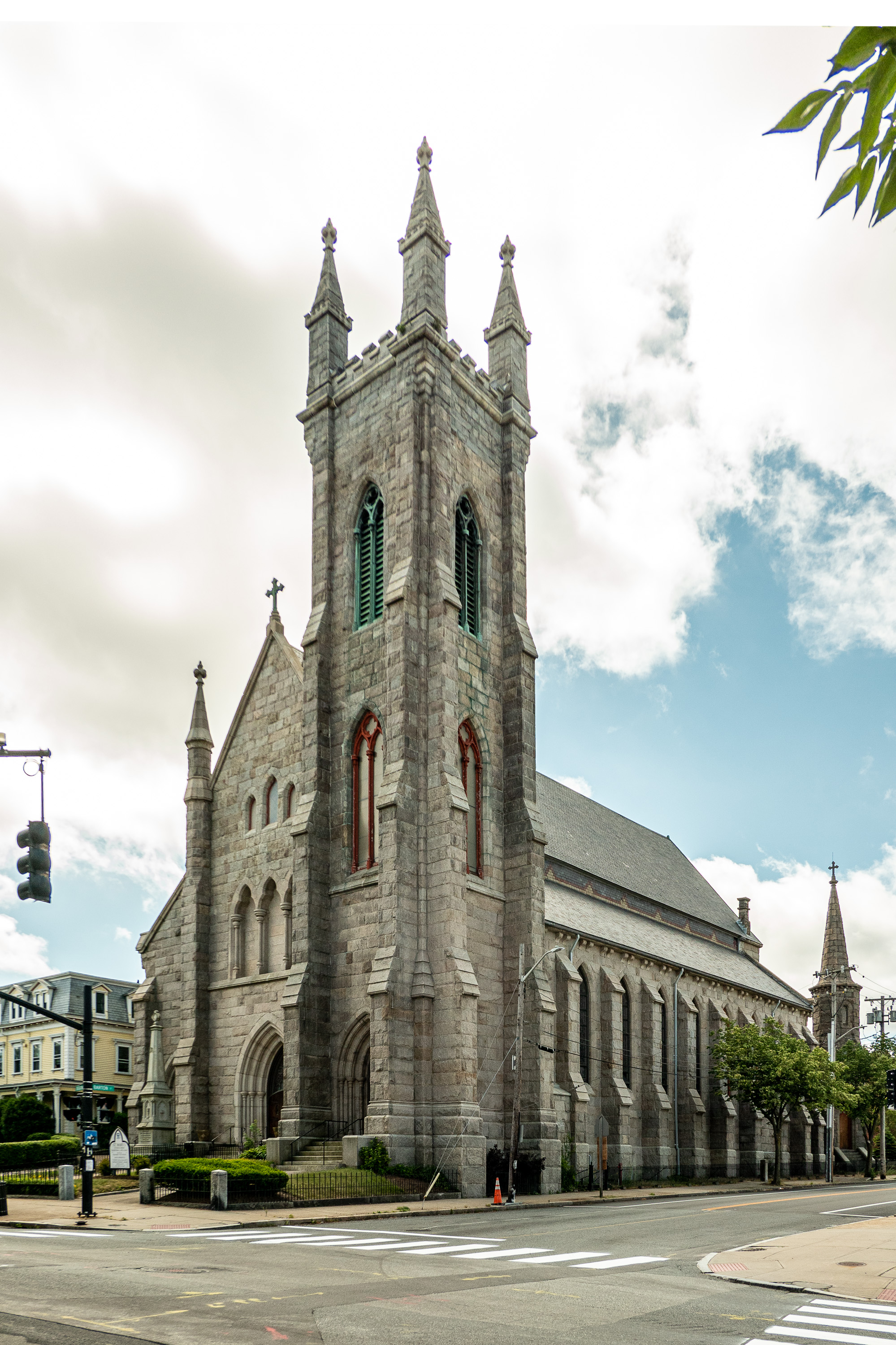 Saint Mary's on Broadway, Providence RI. Broadway and Barton Street.